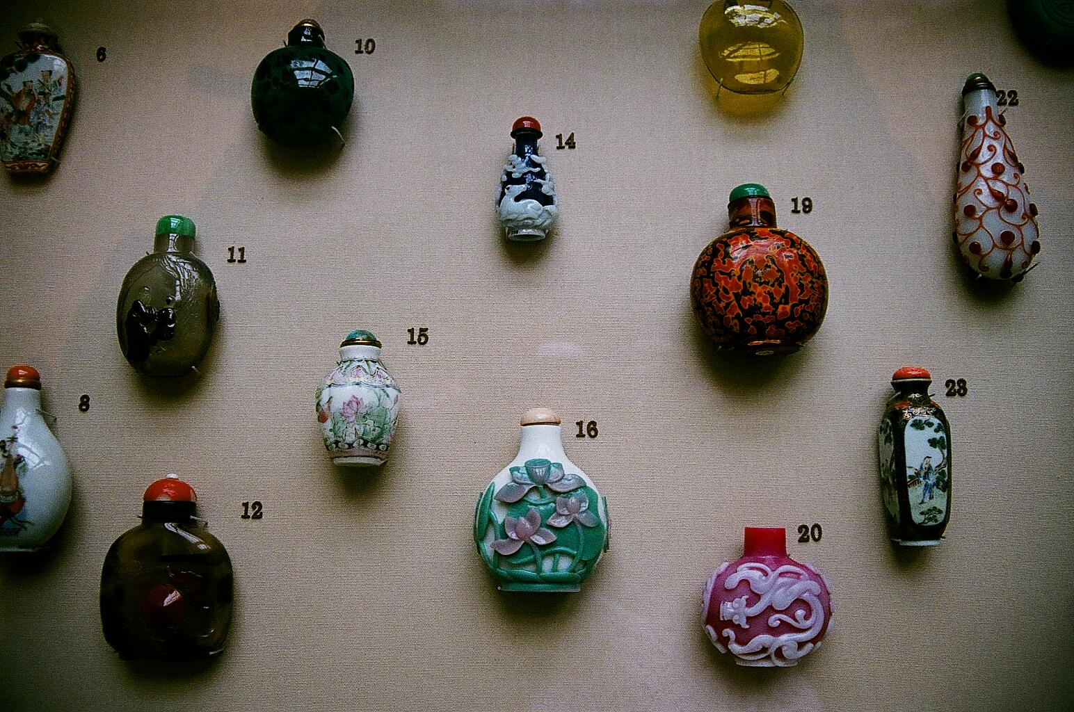 A display of Chinese snuff bottles at the British Museum in London.